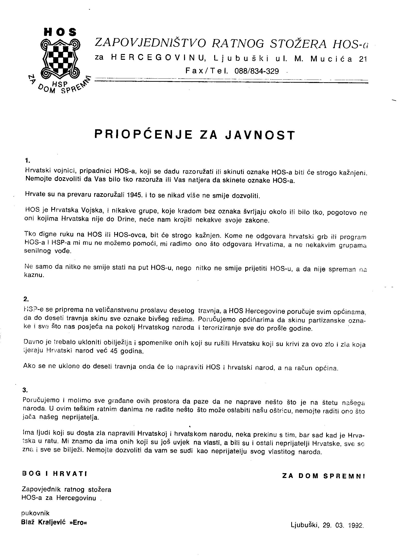 The proclamation of Blaž Kraljević to the soldiers of HOS in Herzegovina.